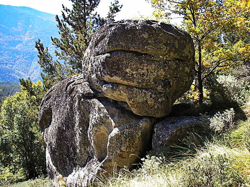 Carev peak2 rila